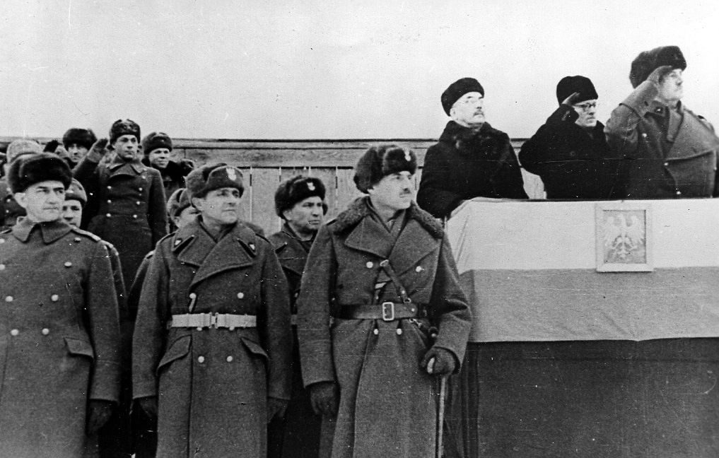 Generals Władysław Anders and Władysław Sikorski in Russia (December 1941) visiting of the Polish Army troops in the USSR